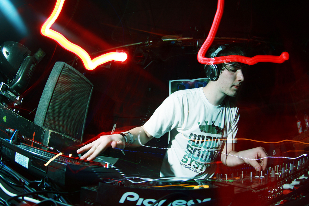 Iration Steppas, Mala, Hatcha, Netsky, Bachelors of Science, Exodus & Tenmen